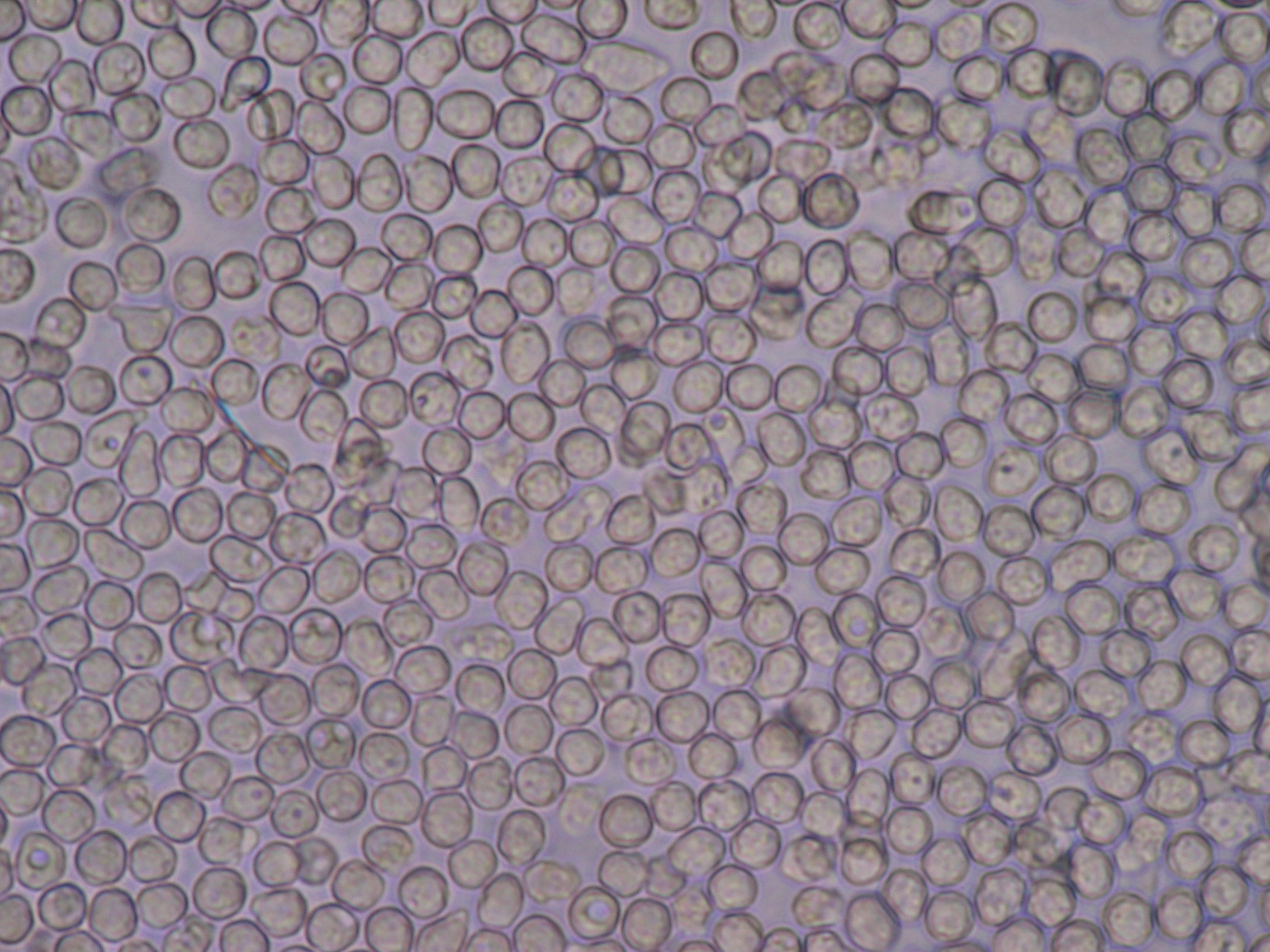 White blood cells seen under a microscope from a urine sample.